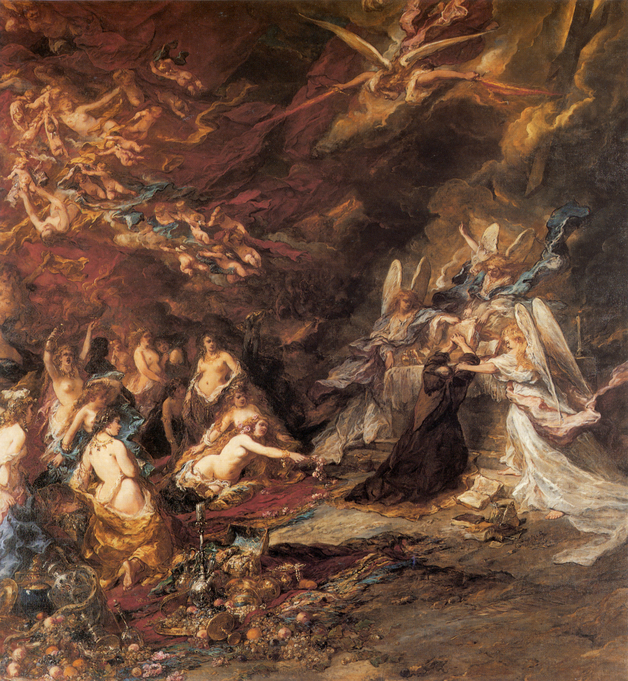 The Temptation of St. Anthony